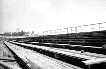 Terraces at Briskeby gressbane